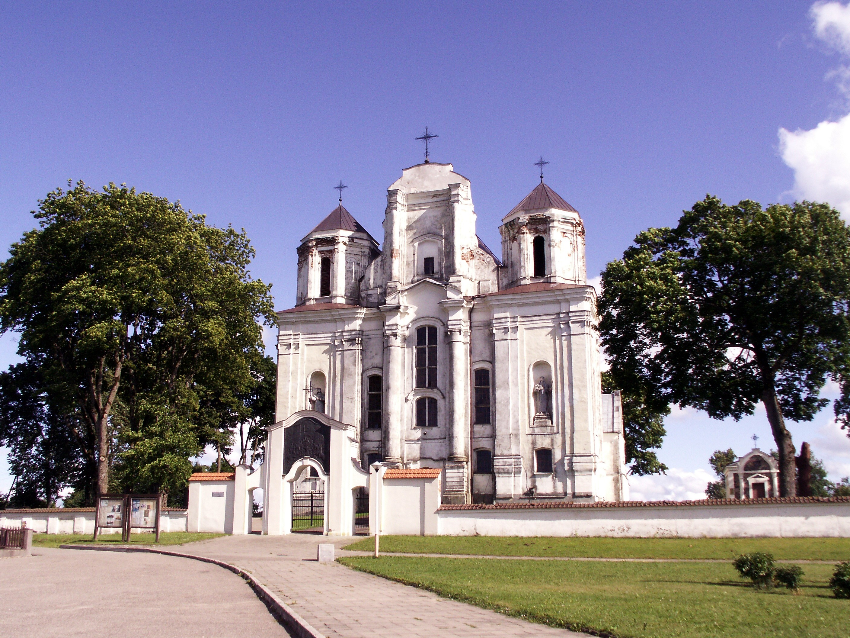 Kražiai church